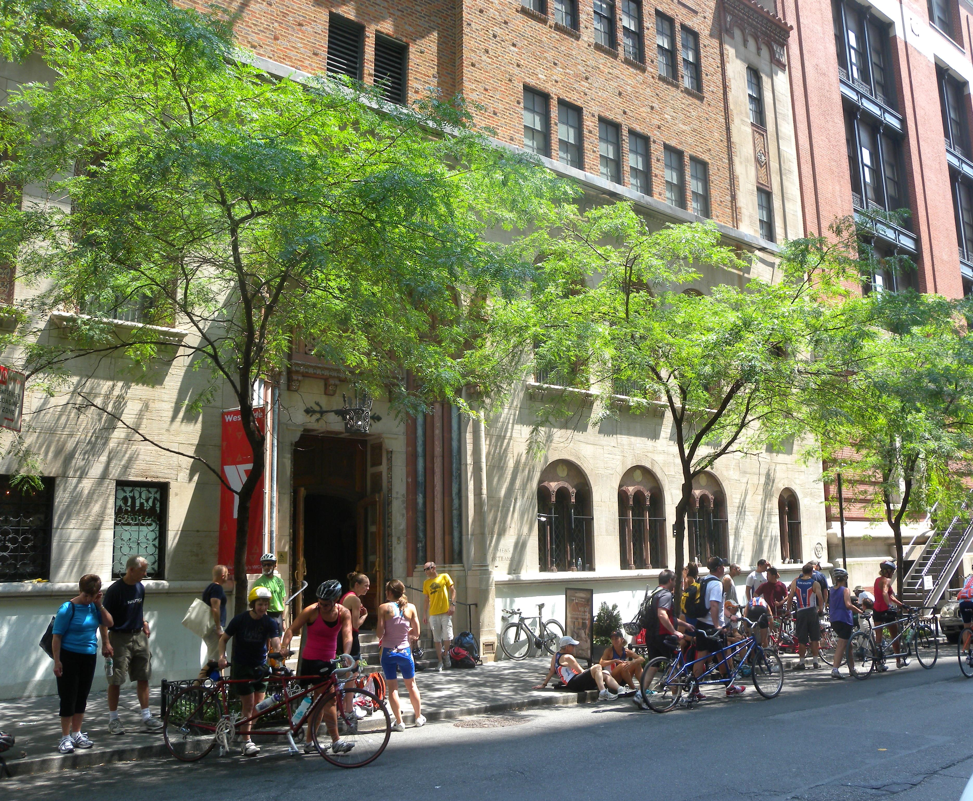 Looking east across 63d Street at Westside Y with bikers gathering.